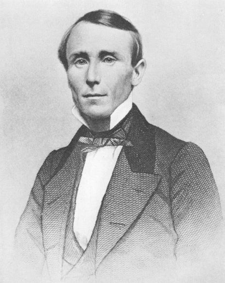 Picture of William Walker (filibuster)